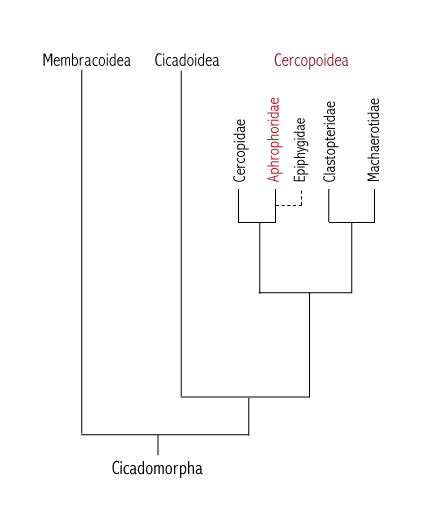 Phylogenetic relationships of Cicadomorpha after Jason R. Cryan, 2005